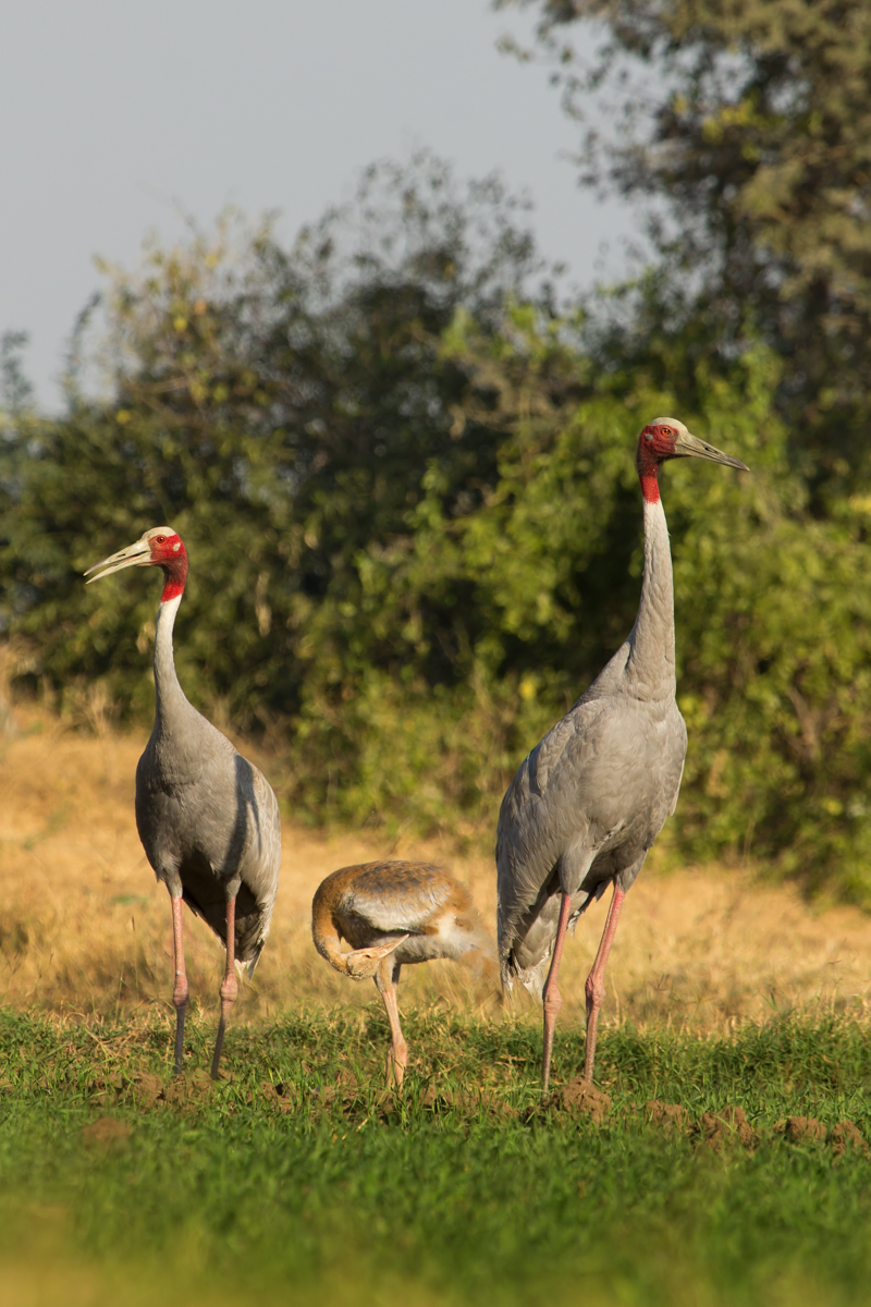 A family in an agricultural land. The chick hasn't fledged yet.